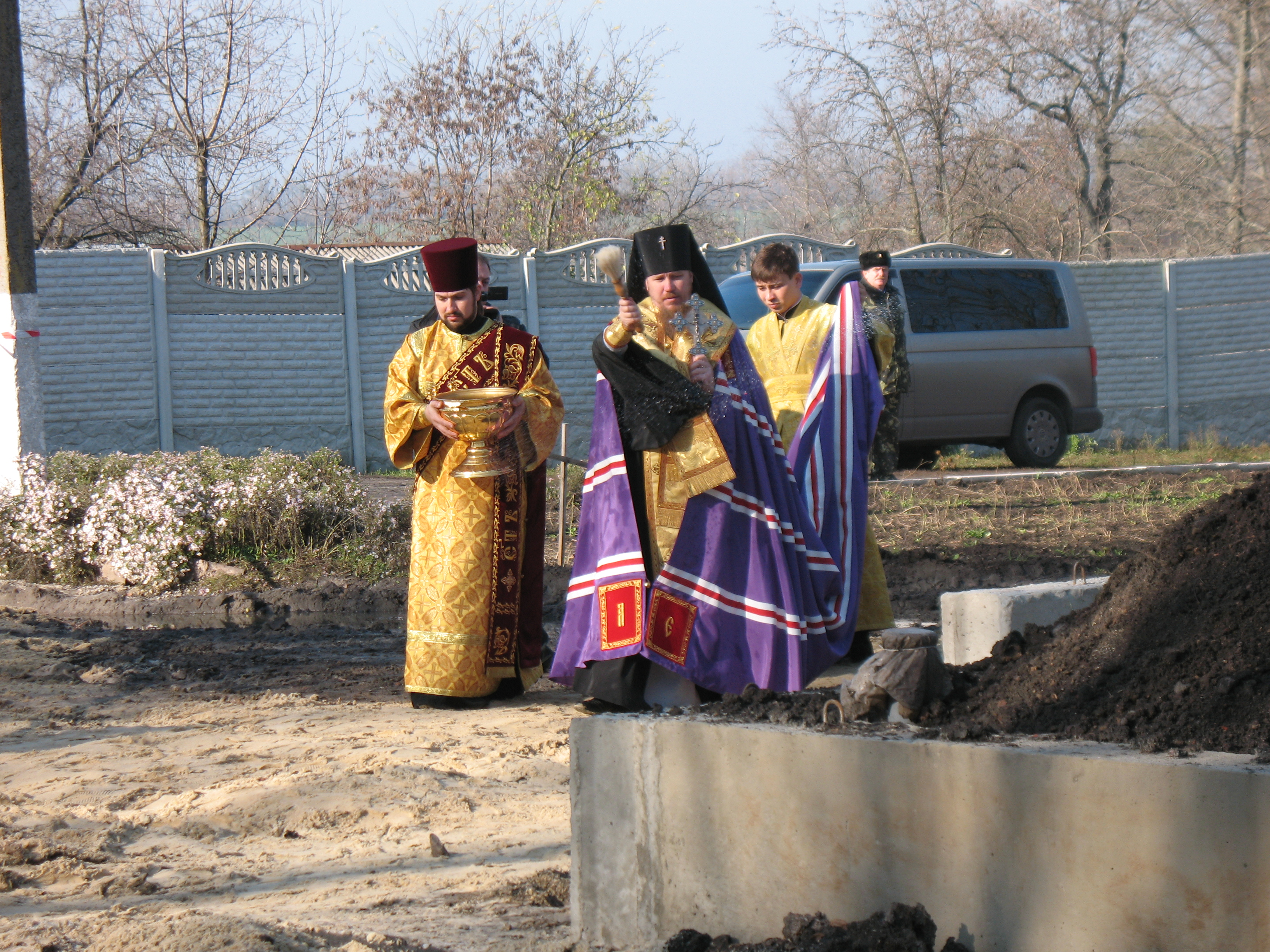 Elisej Ivanov in Spasov Skit.